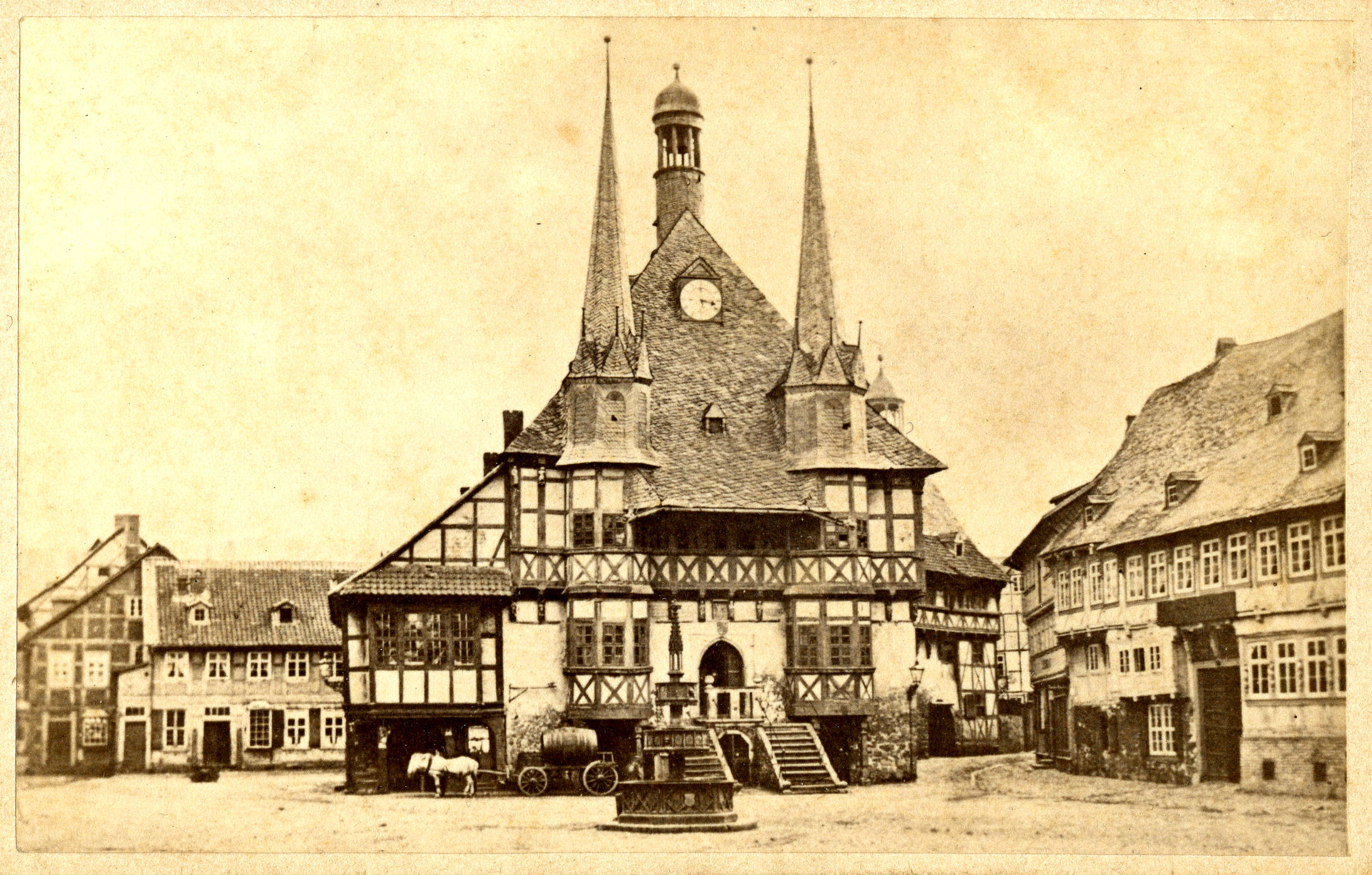 Wernigerode townhall ca. 1890